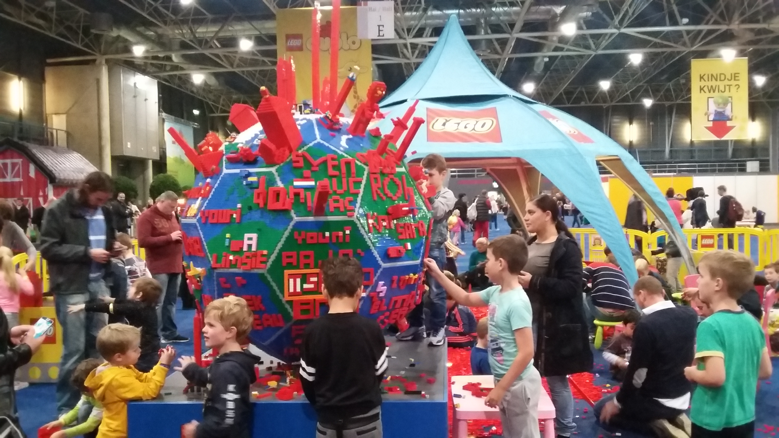 Lego World Event